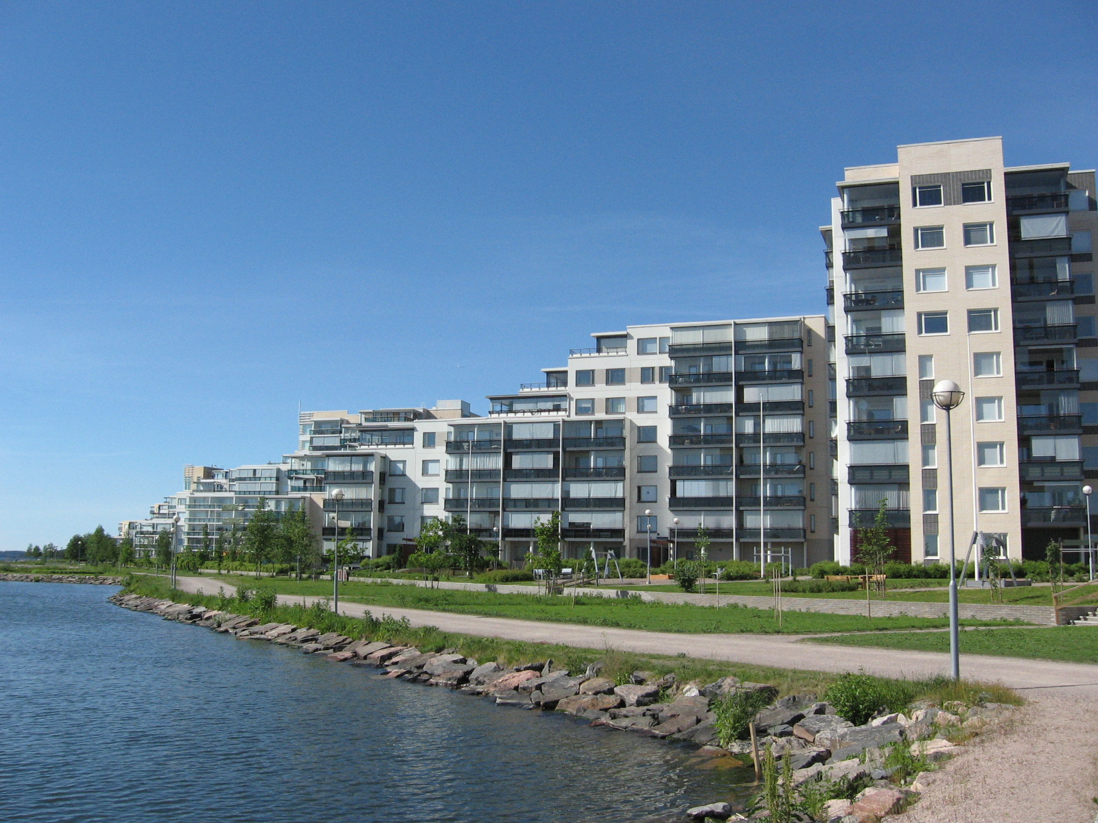 Apartment buildings of Niemi, Lahti by the lake Vesijärvi